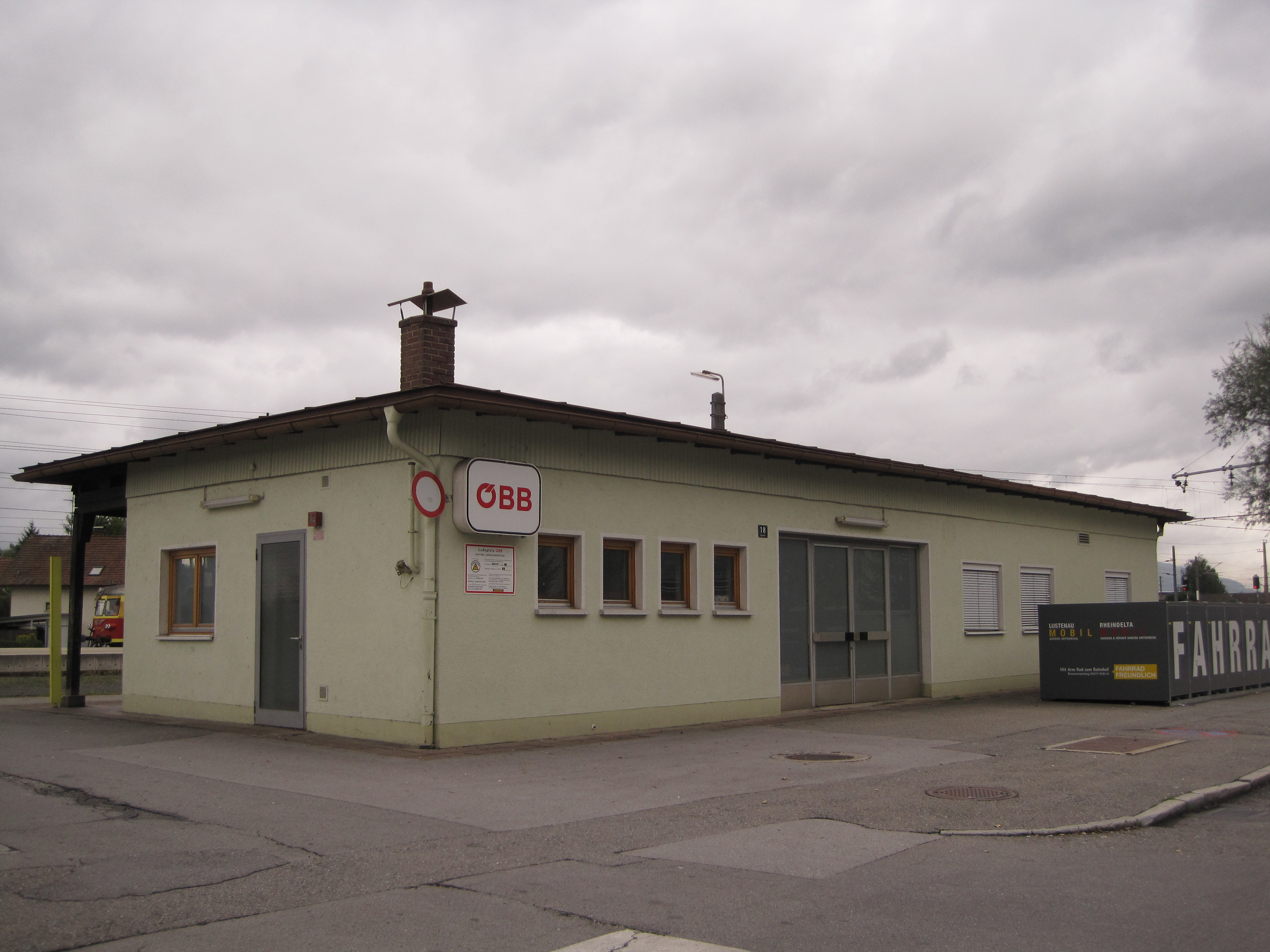 Train station, Lustenau, Austria check usage